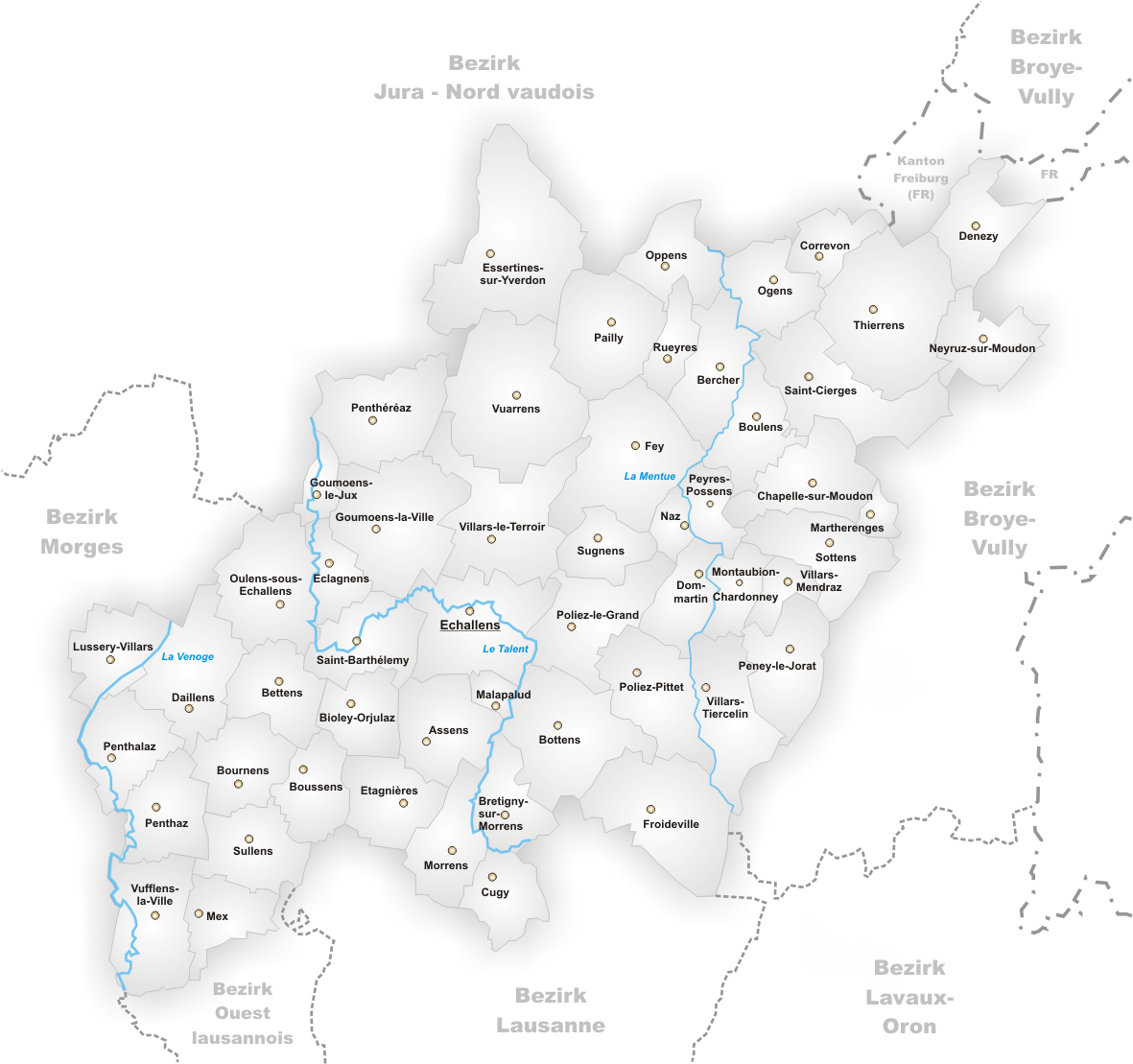 Municipalities of District Gros-de-Vaud from 2008